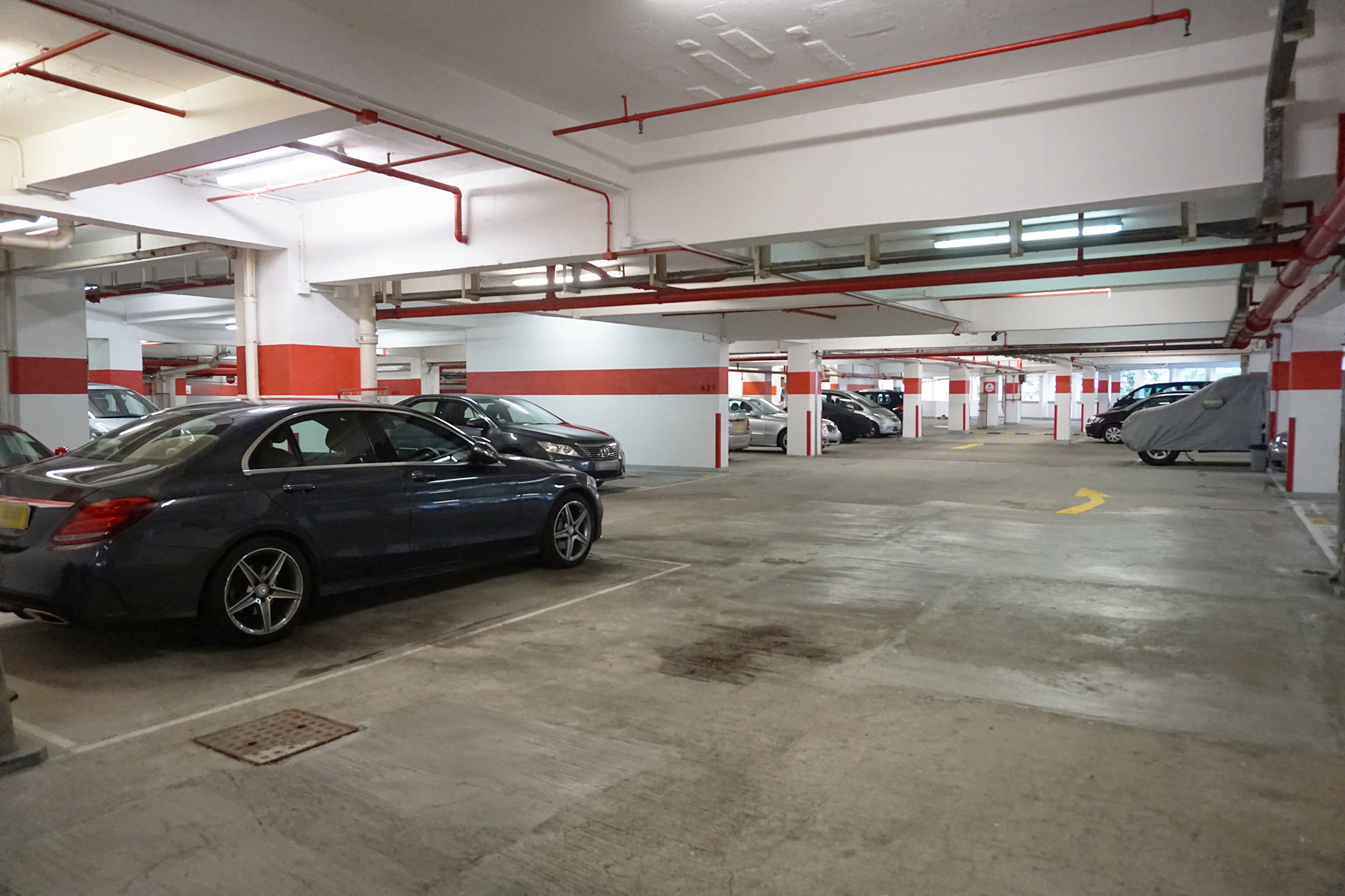 Chun Man Court in Ho Man Tin, Hong Kong.